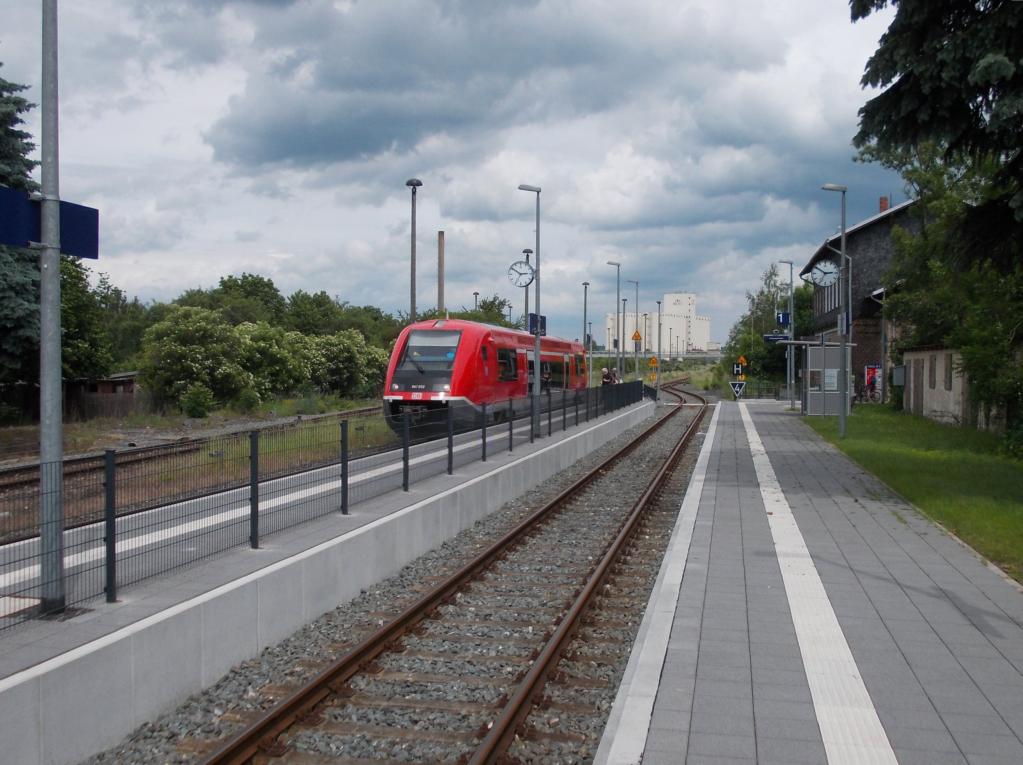 Buttstädt train station (Sömmerda district, Thuringia)